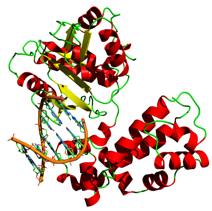 structure of Homo sapiens DNA polymerase beta, pdb file 7ICG. A bound DNA is also indicated